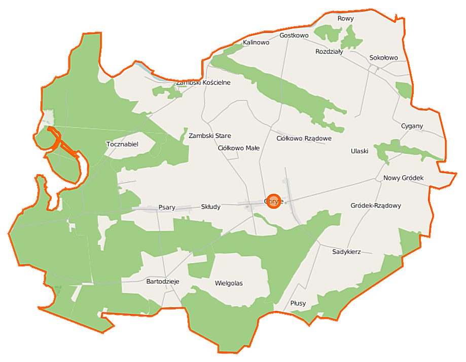 Map of Gmina Obryte, PolandThis map of Obryte (gmina) was created from OpenStreetMap project data, collected by the community. This map may be incomplete, and may contain errors. Don't rely solely on it for navigation.